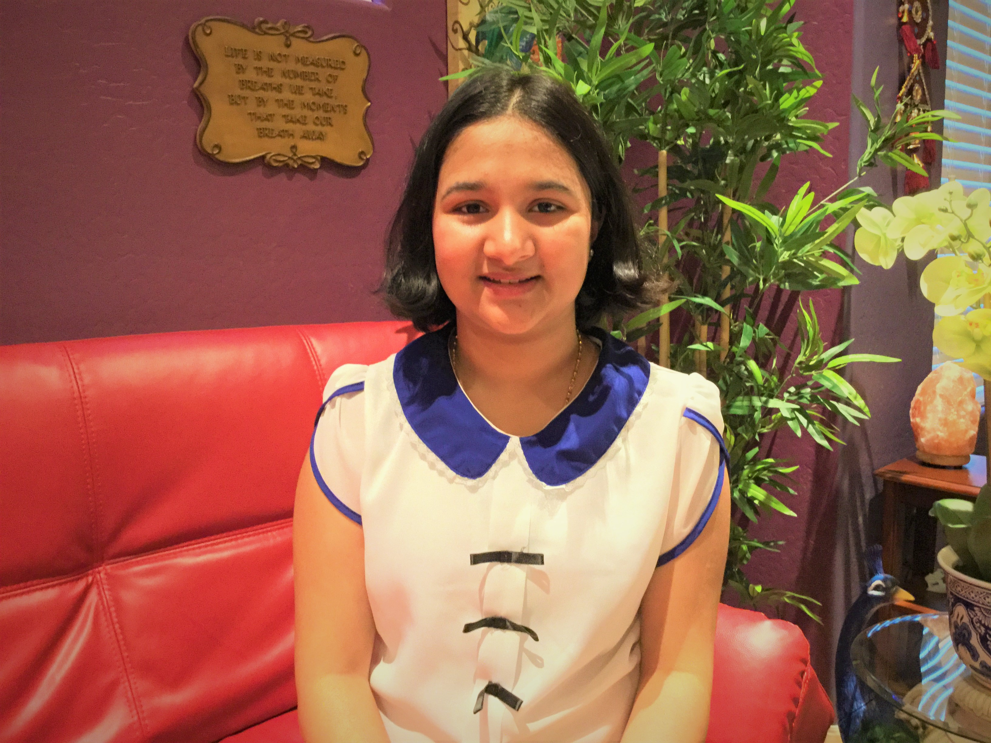 Photo of child prodigy Ria Cheruvu